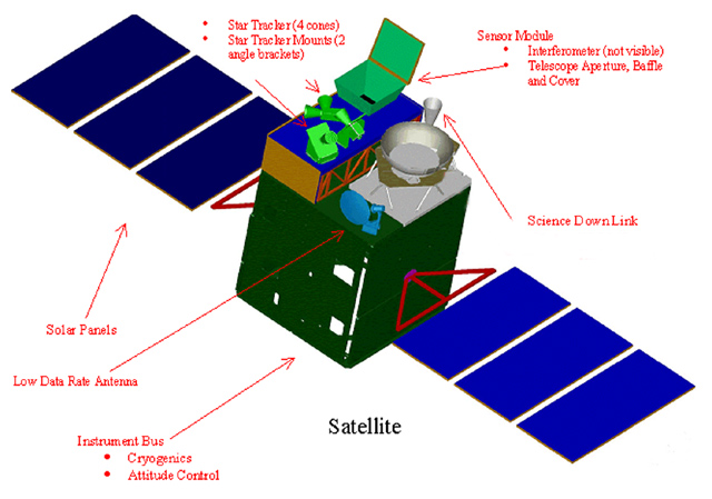 Artist's rendering of the satellite, Earth Observing-3 (EO-3).